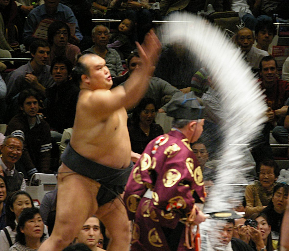 Sumo wrestler Kitazakura throws salt before a bout, Tokyo, October 2007